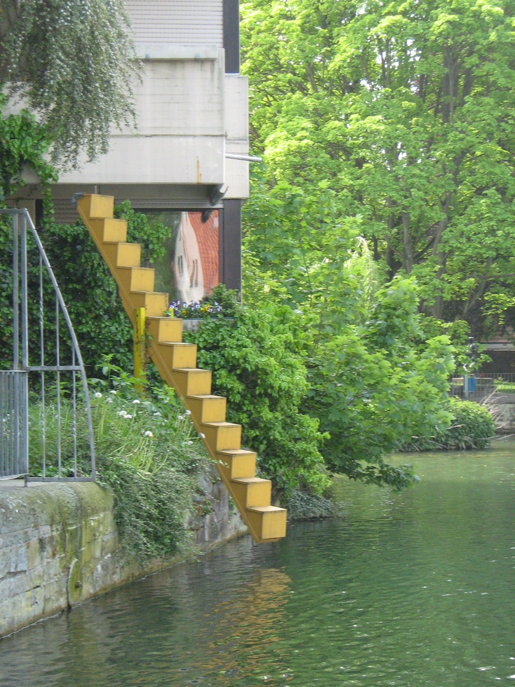 The Soest rocker (replica) on Great Pond in Soest